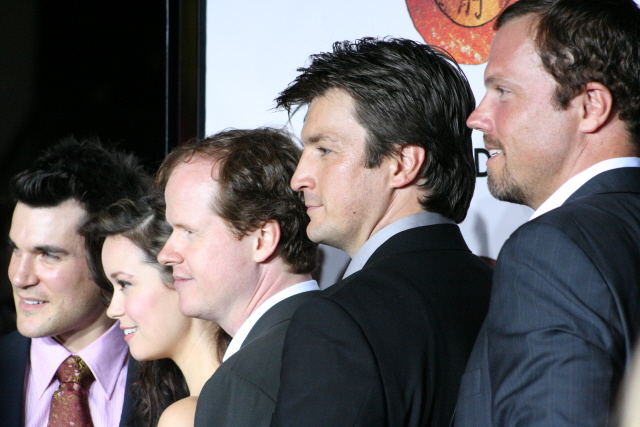 Sean Maher, Summer Glau, Joss Whedon, Nathan Fillion, and Adam Baldwin